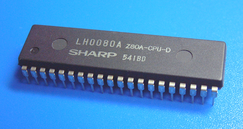 Sharp LH0080A, a Zilog Z80 clone